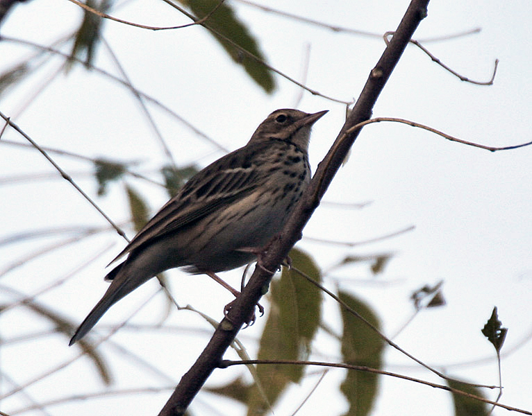 Tree Pipit Anthus trivialis at Sindhrot in Vadodara District of Gujarat, India.